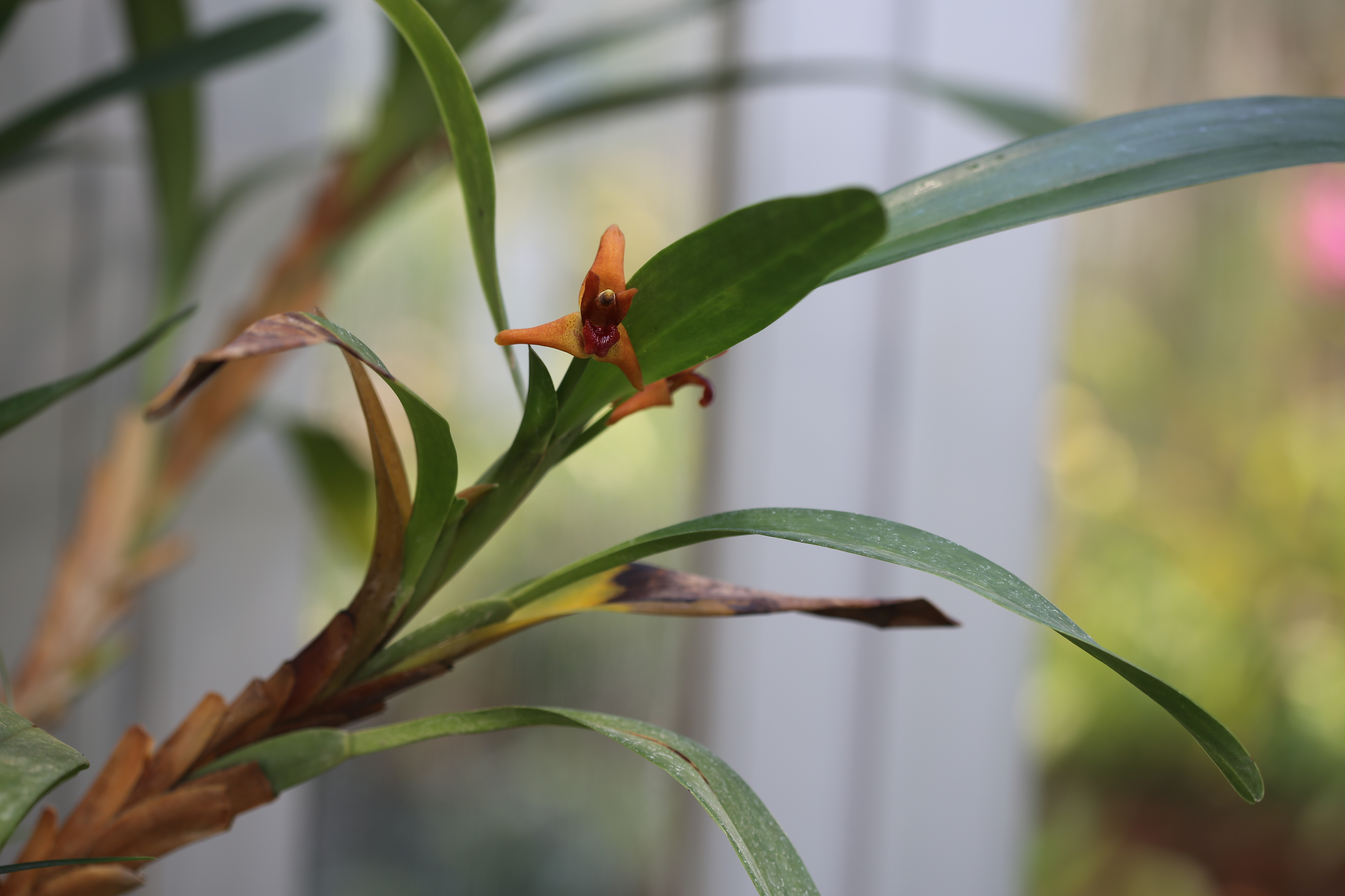 Maxillaria elatior at Gothenburg botanical garden in 2015. Plant id: 1999-V0148 p Z -- Christ., H